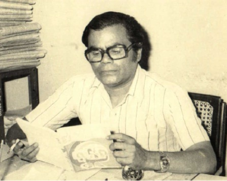 Biswajit at his workplace